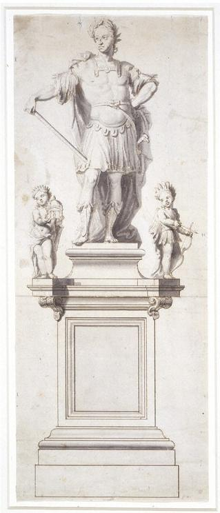 King William III, William of Orange, 1689-1700, John van Nost Museum no. 9145 Techniques - Pen and ink and wash on paper Place - England Dimensions - Height 49.5 cm, Width 18.1 cm Object Type - This preparatory drawing was probably shown to the client, William III. There are very few identified drawings by Nost, the others being in the Bodleian Library, Oxford, and the British Museum, London. Subjects Depicted - William III, who reigned with his wife, Mary II, from 1689 to1702, is here portrayed in Roman costume. The central figure is flanked by two putti symbolising the continents of Europe and America. The work might have been intended as a companion to a statue of Mary with the other two continents. People - John Nost was a native of Malines in The Netherlands. He is first recorded in England around 1678, working at Windsor Castle under Hugh May. His workshop was in the Haymarket and he specialised in lead figures, though he also worked in other materials, such as stone and terracotta. The workshop made a number of pieces for William III's gardens. Other statues by Nost also show the King as a Roman emperor, including two in lead, one at Wrest Park, Bedfordshire, and one in Portsmouth Dockyard, Hampshire, which could relate to this drawing.